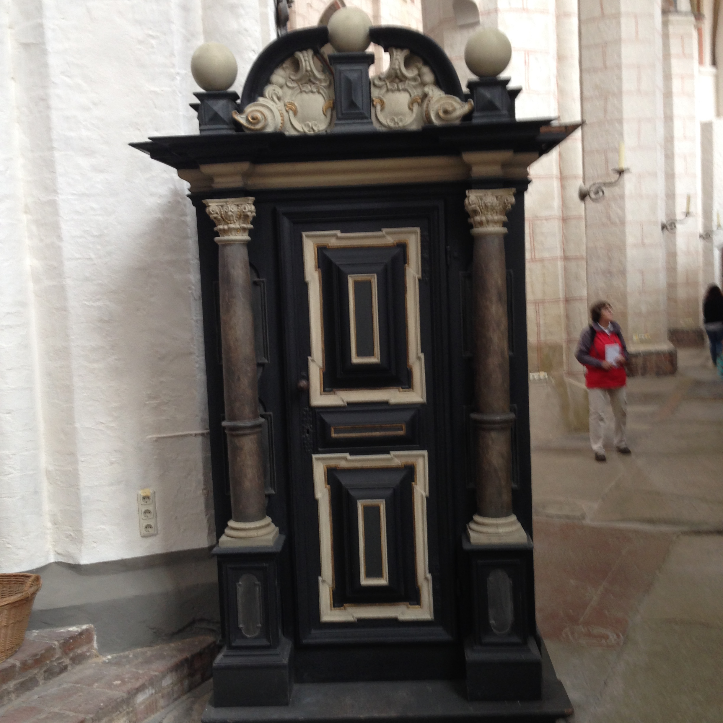 Door to pulpit in St. Cathrine, Lübeck